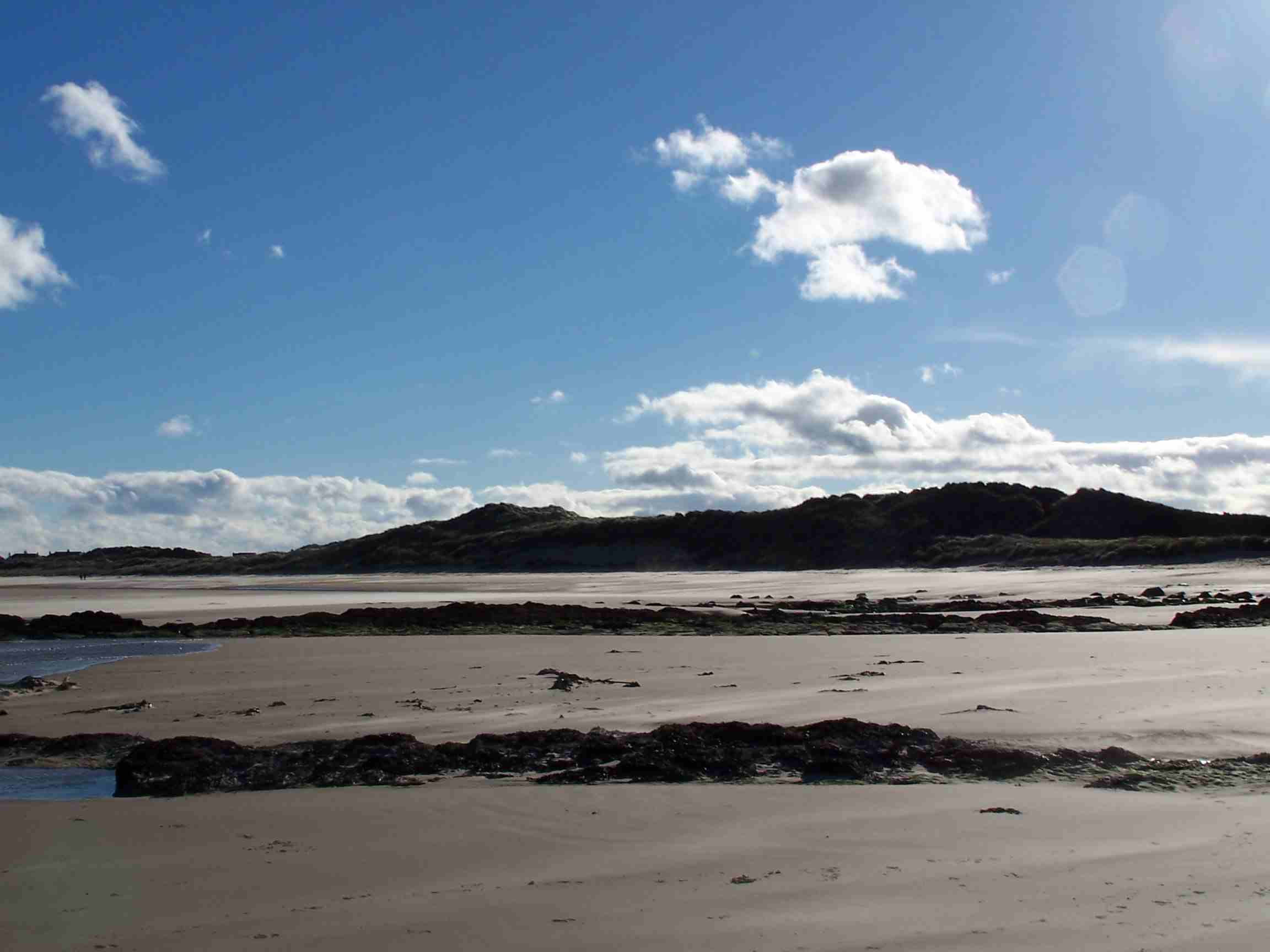 Personal picture taken by Mick Knapton in Otober 2006